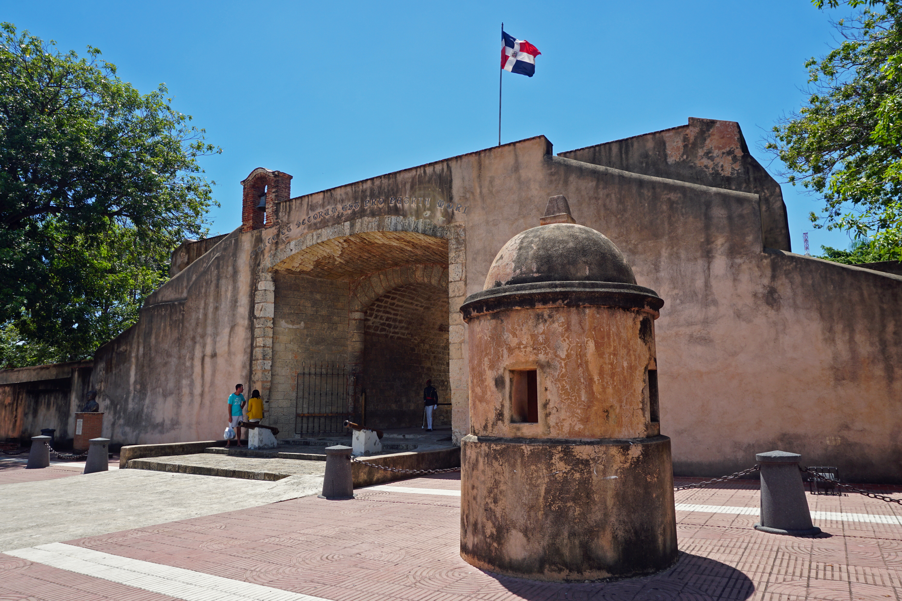 Puerta del Conde, Ciudad Colonial Santo Domingo, Dominican Republic.